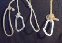 Caving use of the double overhand bight